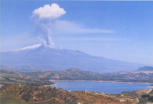 View, Lake Pozzillo and Regalbuto and Etna Volcano. by Daniele Gambilonghi